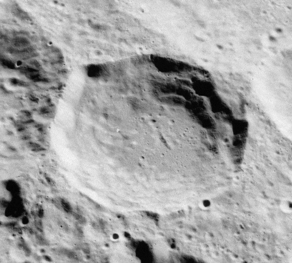 Oblique view of Firsov, on the far side of the moon. North is in lower right.